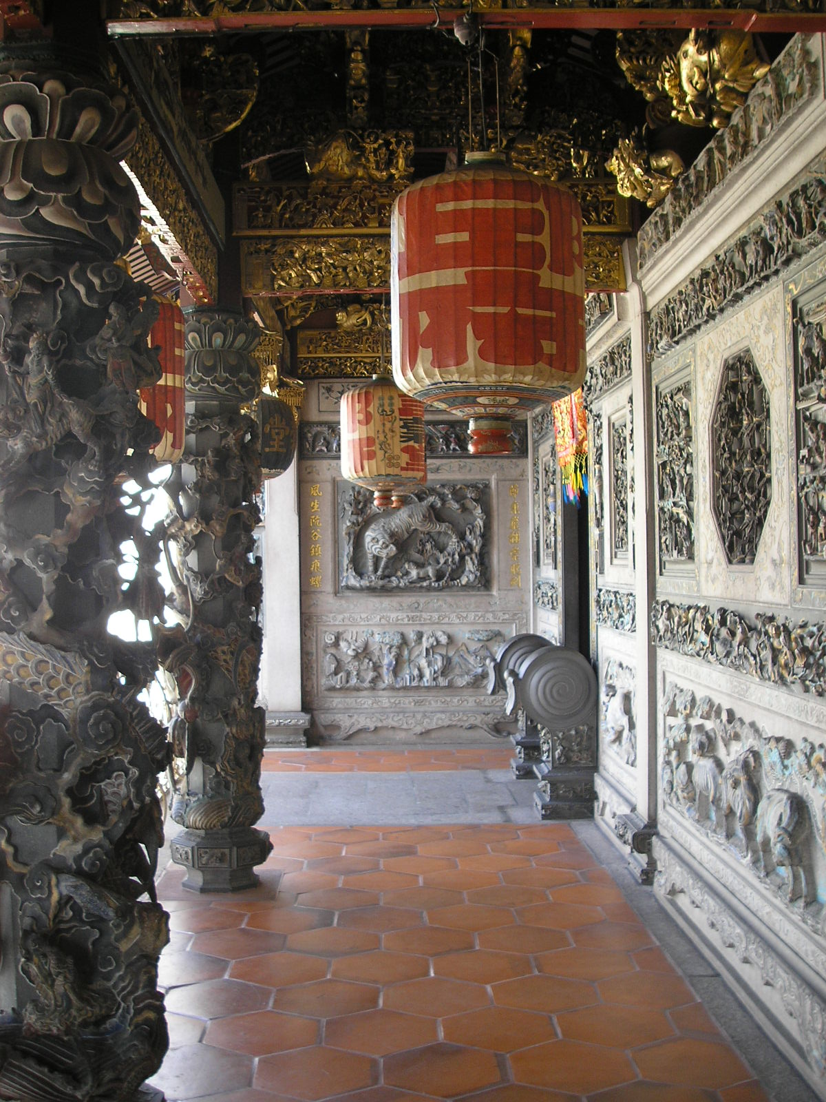 Image of the Leong San Tong Khoo Kongsi (also known as Khoo Kongsi Temple) in George Town, Penang.